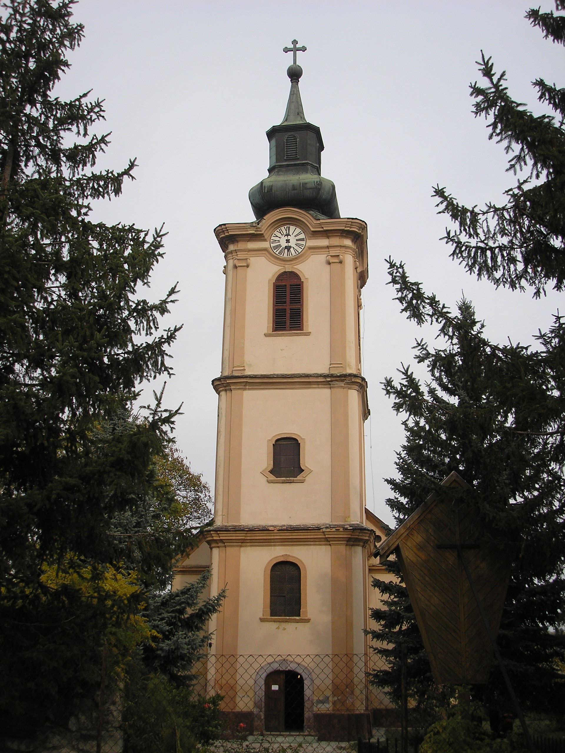 Church in Érd (Hungary)